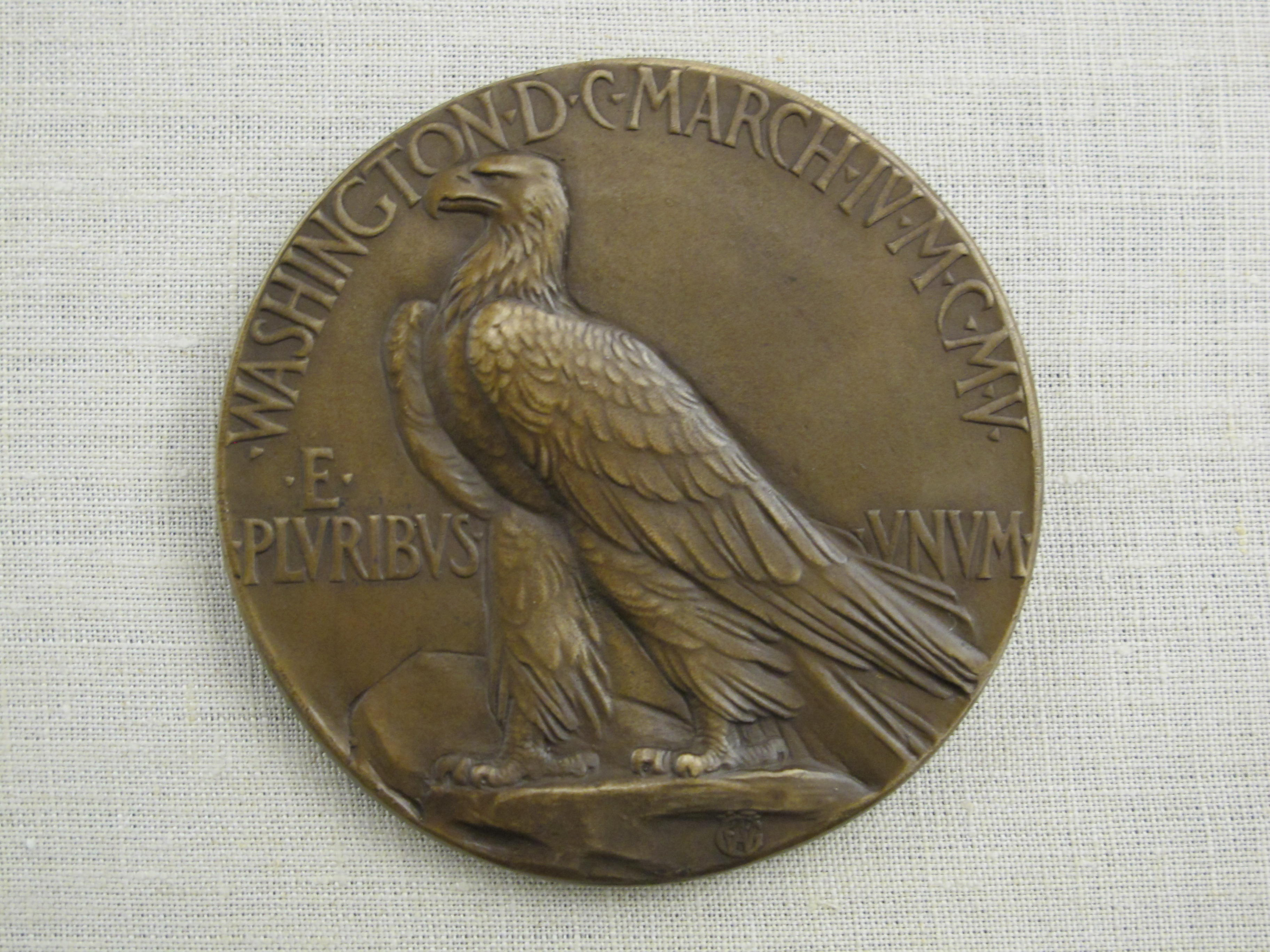 The backside of President Theodore Roosevelt's 1905 bronze inauguration medal. The medal was designed by Augustus Saint-Gaudens and produced by Tiffany & Co.